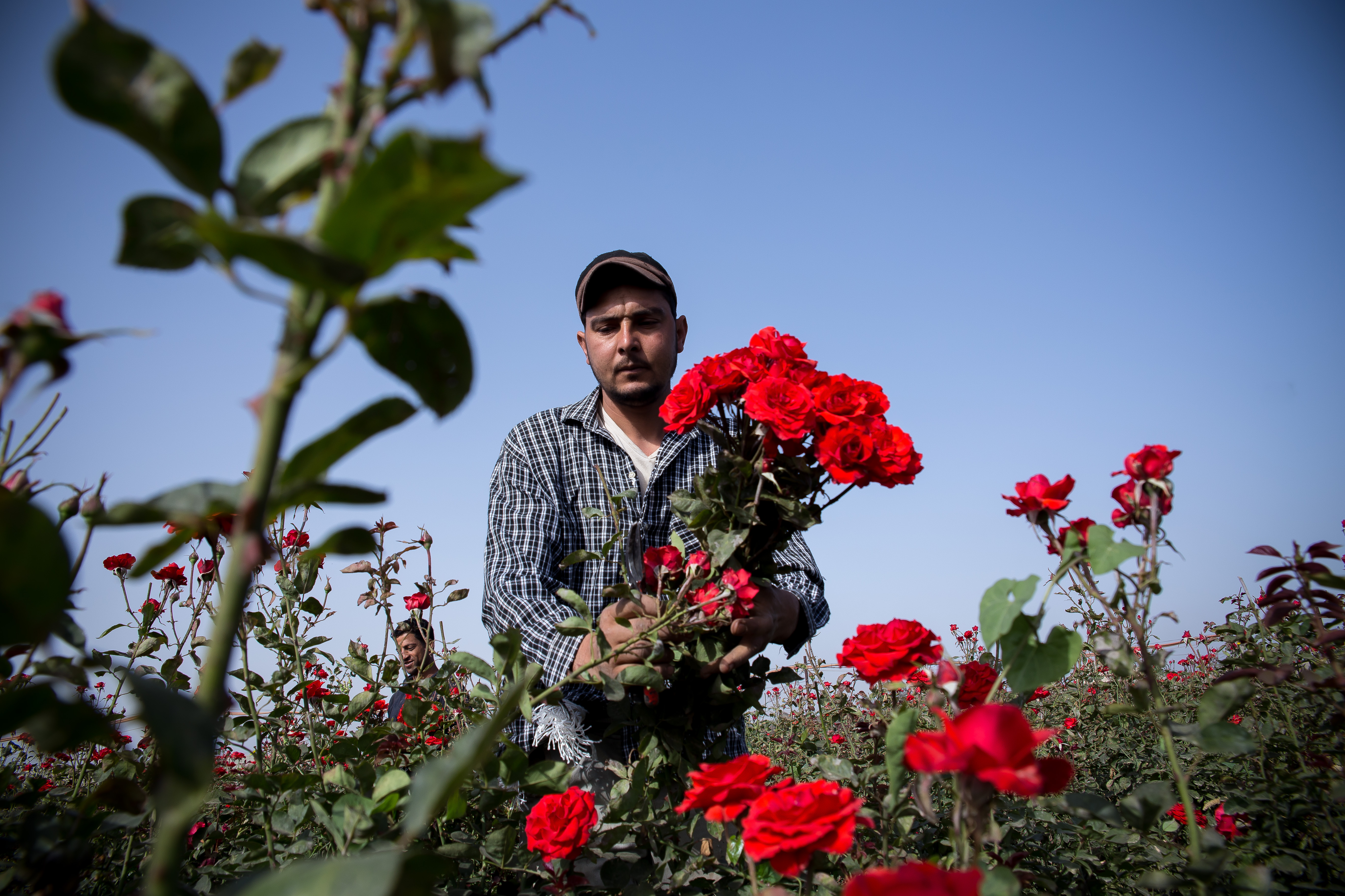 A Farmer at his work in Fields of endless Flowers. This is an image of "African people at work" from Egypt